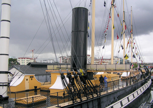 SS Great Britain Taken from the gantry leading from the museum to the deck. It is very interesting below deck with cabins, state rooms, and the engine rooms. You can get married on the ss Great Britain’s Promenade Deck.